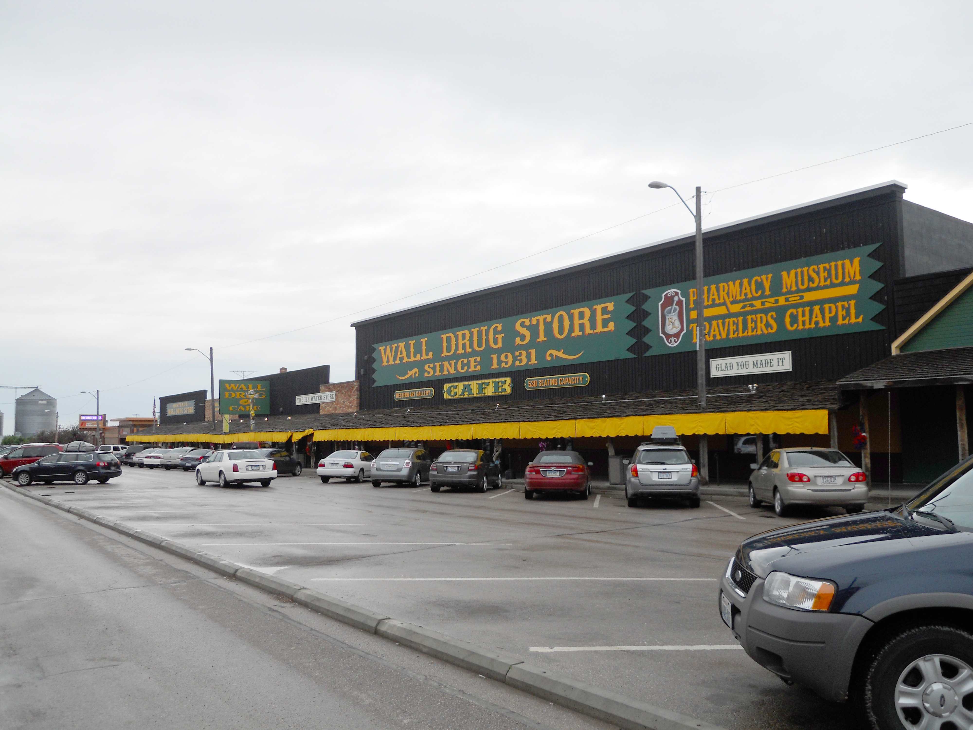 Wall Drug Store, often referred to simply as "Wall Drug", is a tourist attraction located in the town of Wall, South Dakota. It is a sprawling shopping mall consisting of a drug store, gift shop, restaurants and various other stores. Unlike a traditional shopping mall, all the stores at Wall Drug operate under a single entity instead of being individually run stores.